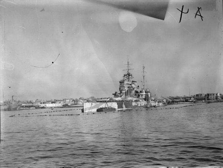 The British Royal Navy battleship HMS Queen Elizabeth in Alexandria harbour surrounded by anti-torpedo nets.